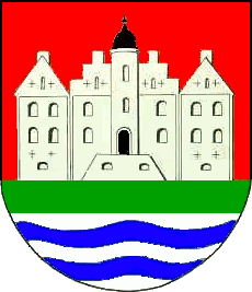 Coat of arms of the municipality Breitenburg in Schleswig-Holstein, Germany.